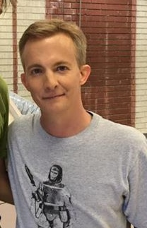 Dian Bachar on the set of "My Neighborhood", 2015